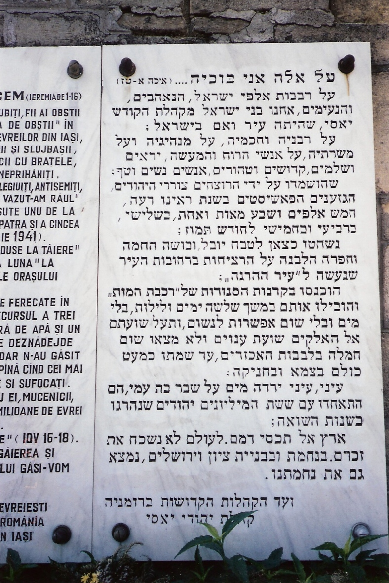 monument of iasi pogrome in iasi cemetery